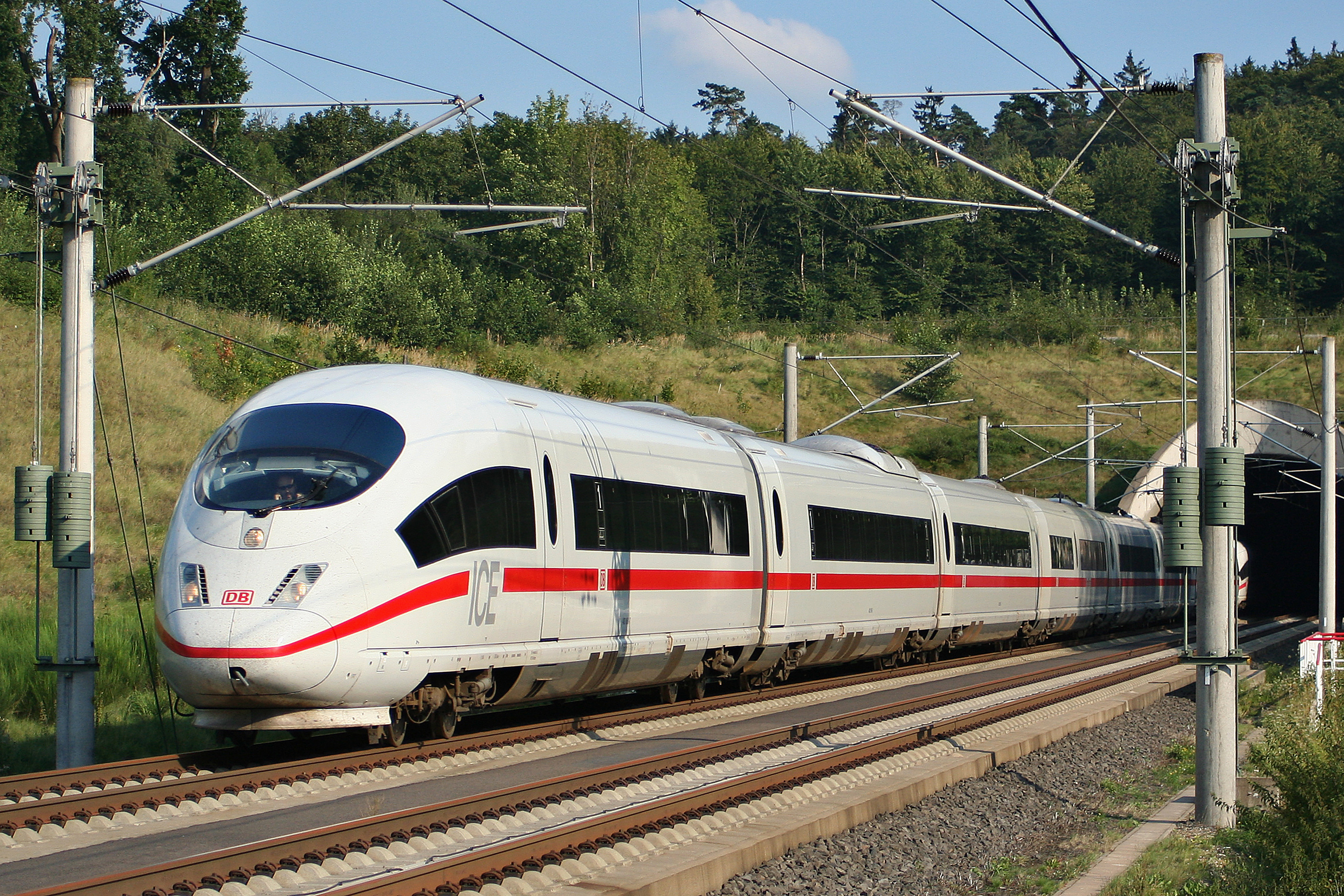 An ICE 3 high speed train on the Frankfurt-Cologne high-speed rail line, near the Oberhaider Wald Tunnel.